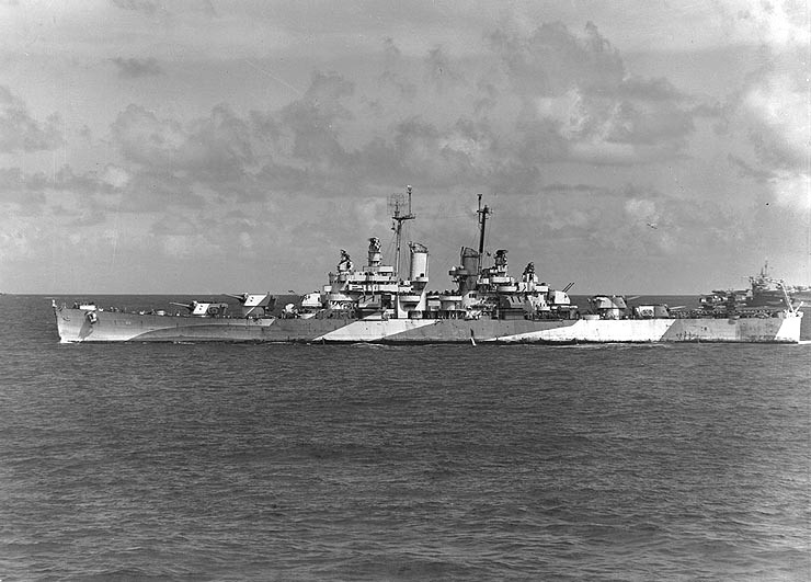 The U.S. Navy light cruiser USS Columbia (CL-56) steaming with Task Force 77.4 in Surigao Strait, Philippine Islands, on 3 January 1945 while en route to the Lingayen Gulf landings. Columbia is painted in Camouflage Measure 33, Design 1d.